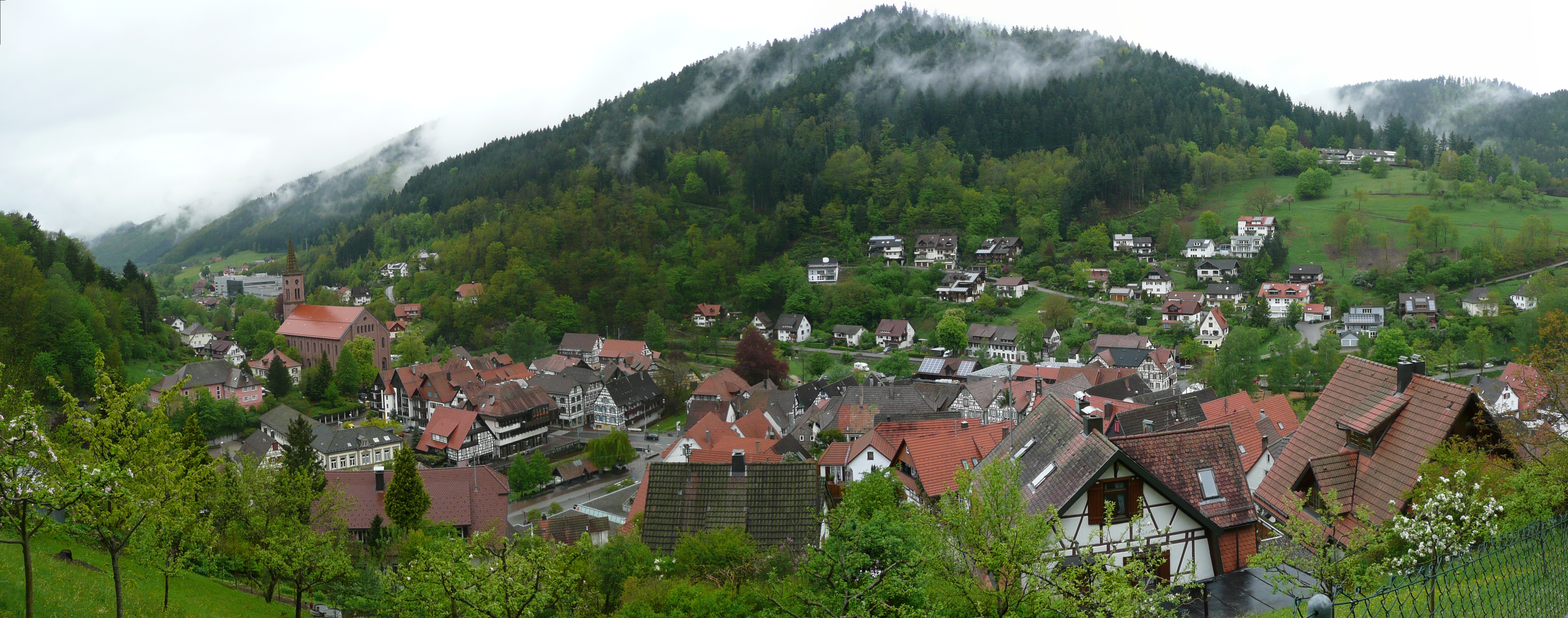 panorama of Schiltach.